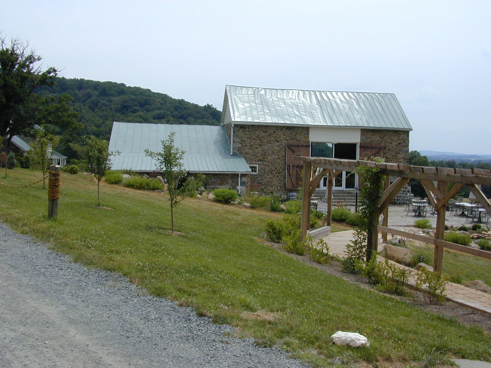 Hillsborough Winery. Loudon County, Va.